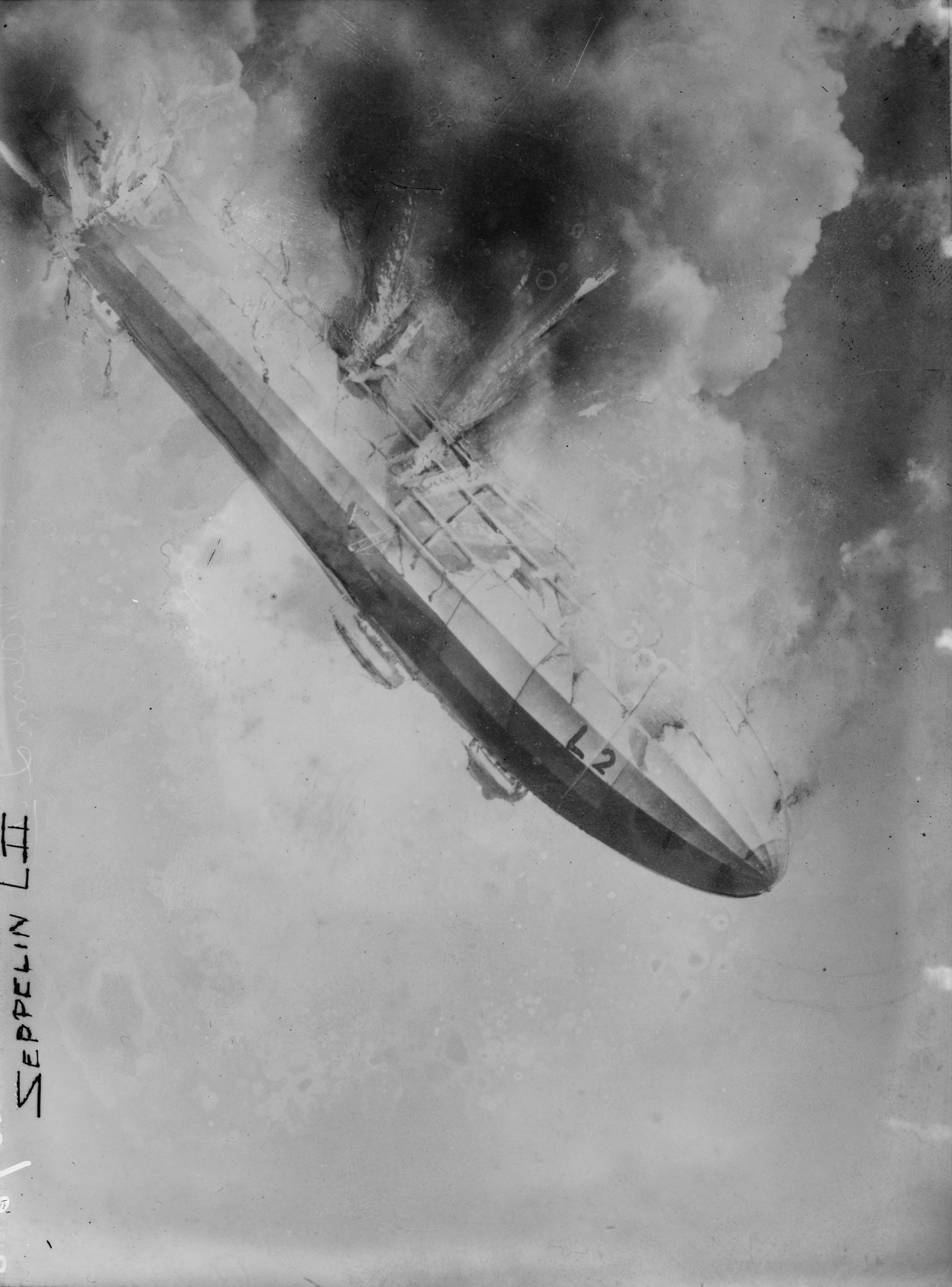 Bundesarchiv cropped print